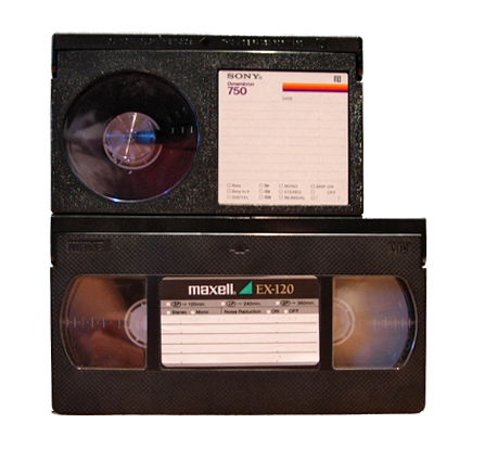 A blank Betamax casette next to a blank VHS cassette for size comparison. Taken and edited by senork on 9/25/2006.